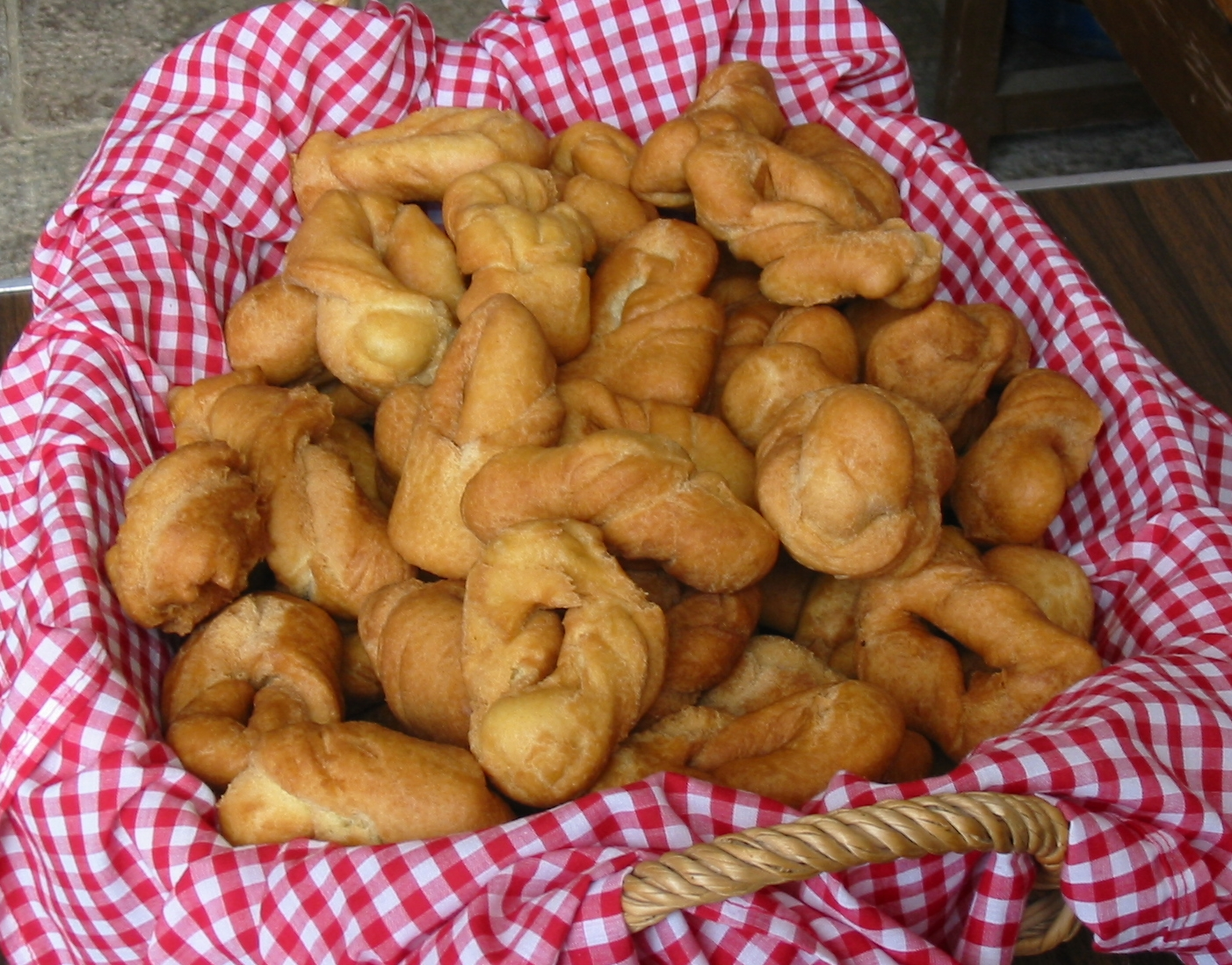 Jersey wonders, or mèrvelles, a traditional fried dough speciality in Jersey cuisine Image created by User:Man vyi on 1st May 2005